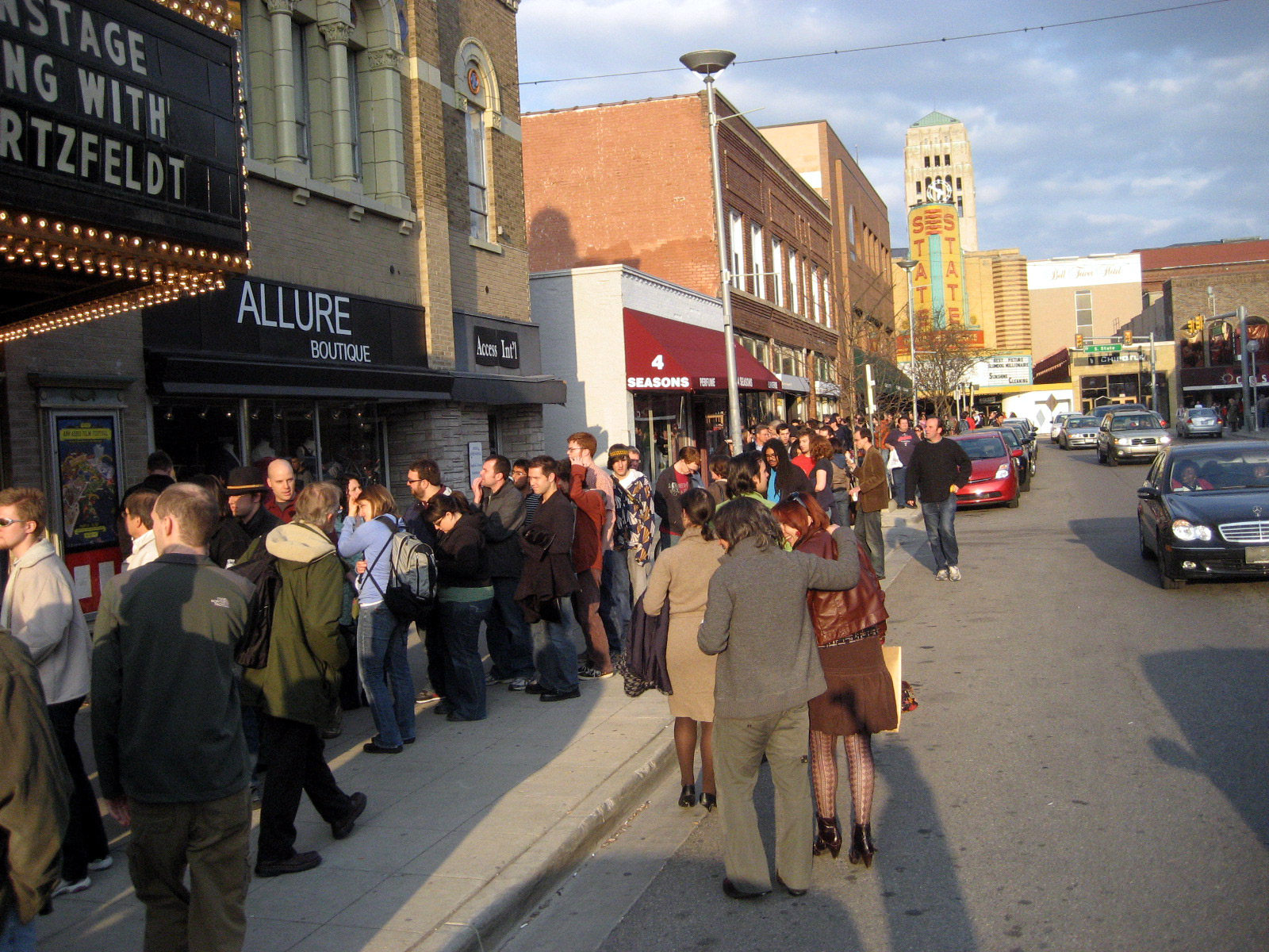 A line wrapped around the block for An Evening with Don Hertzfeldt at the Michigan Theater in Ann Arbor.